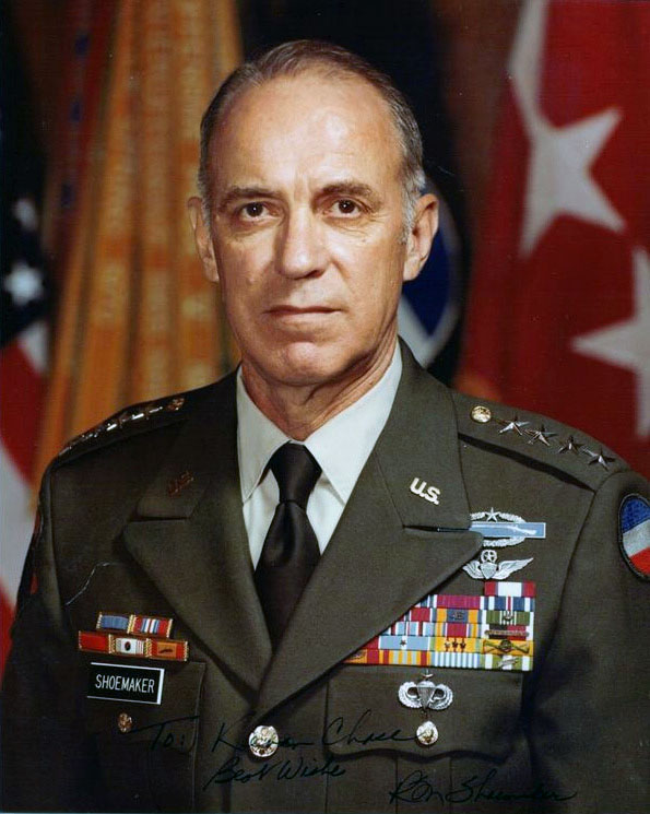 General Robert Morin Shoemaker